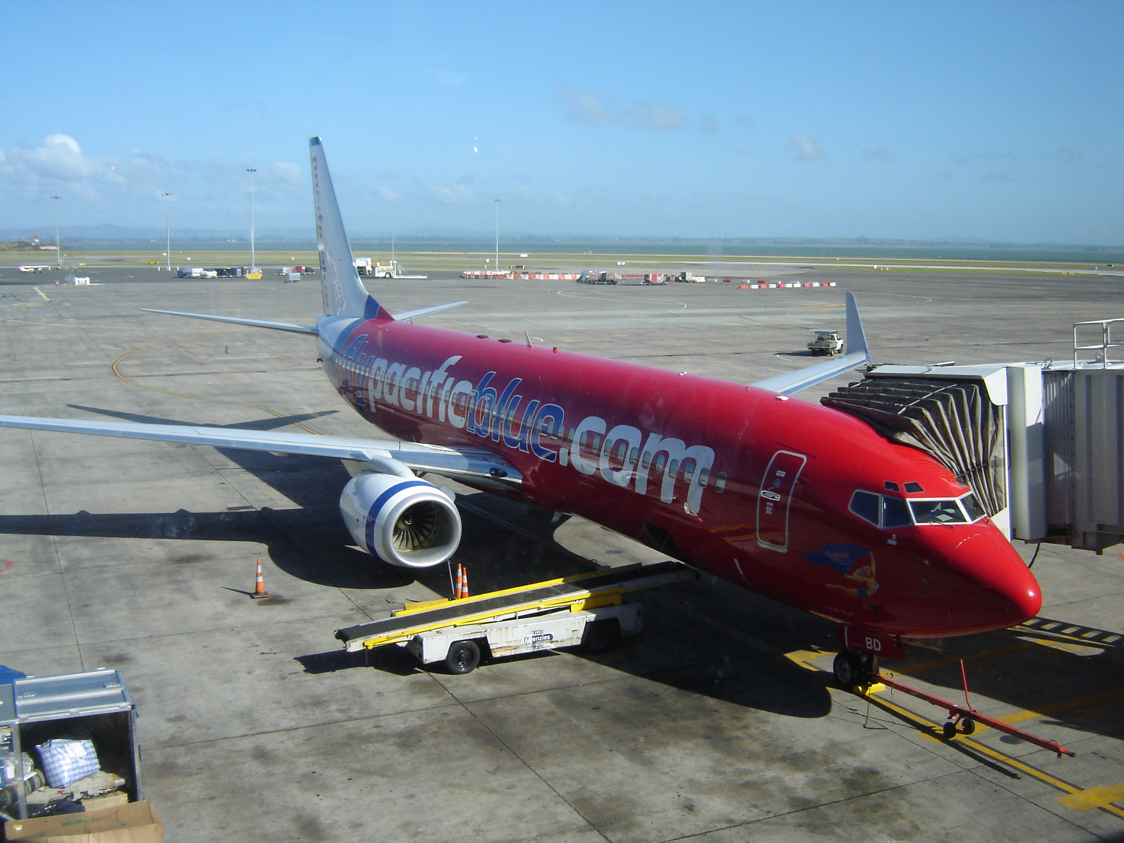 A Pacific Blue Boeing 737-800 at Auckland International Airport (New Zealand), photographed by DO'Neil.